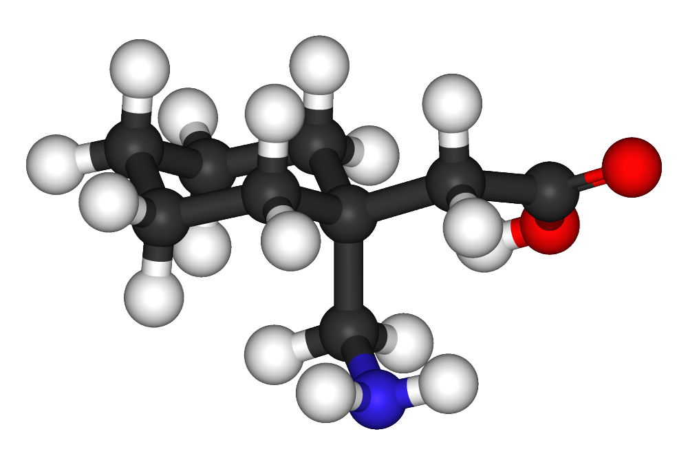 Ball-and-stick model of gabapentin in its zwitterionic form. Created using Accelrys DS Visualizer Pro 1.7 and GIMP. This image was created with Discovery Studio Visualizer.